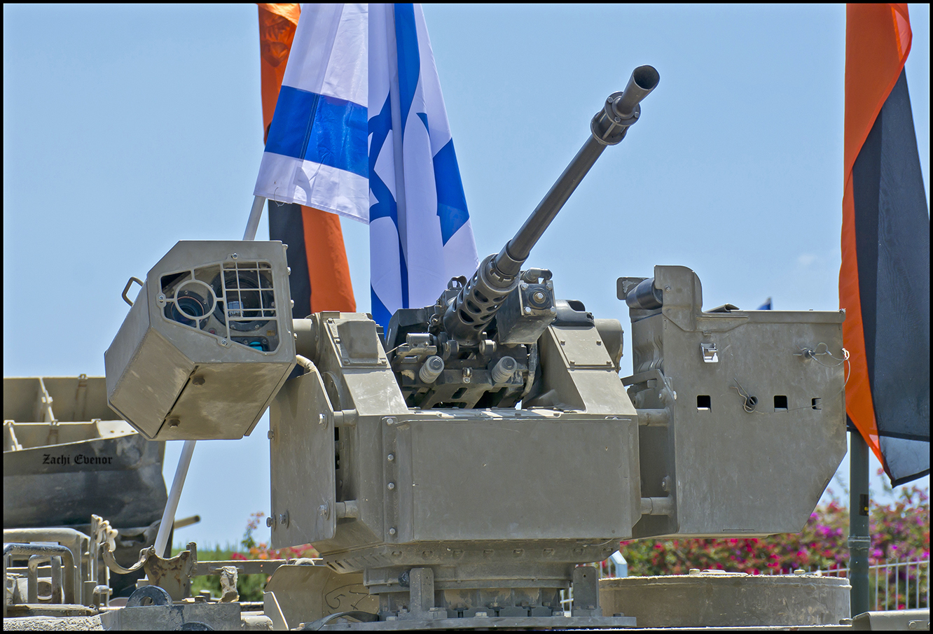 Elbit Systems Draconith RCWS armed with an M2 Browning 0.5 heavy machine gun, installed on an IDF Puma CEV, Israel 68th Independence Day, Ground Army Exhibition, Yad LaShiryon, Israel